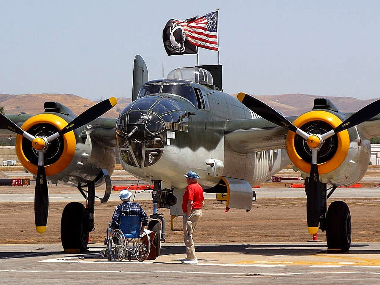 Image title: Aircraft at AirShow San Diego, formerly Wings Over Gillespie, at Gillespie Field, El Cajon, California Image from Public domain images website